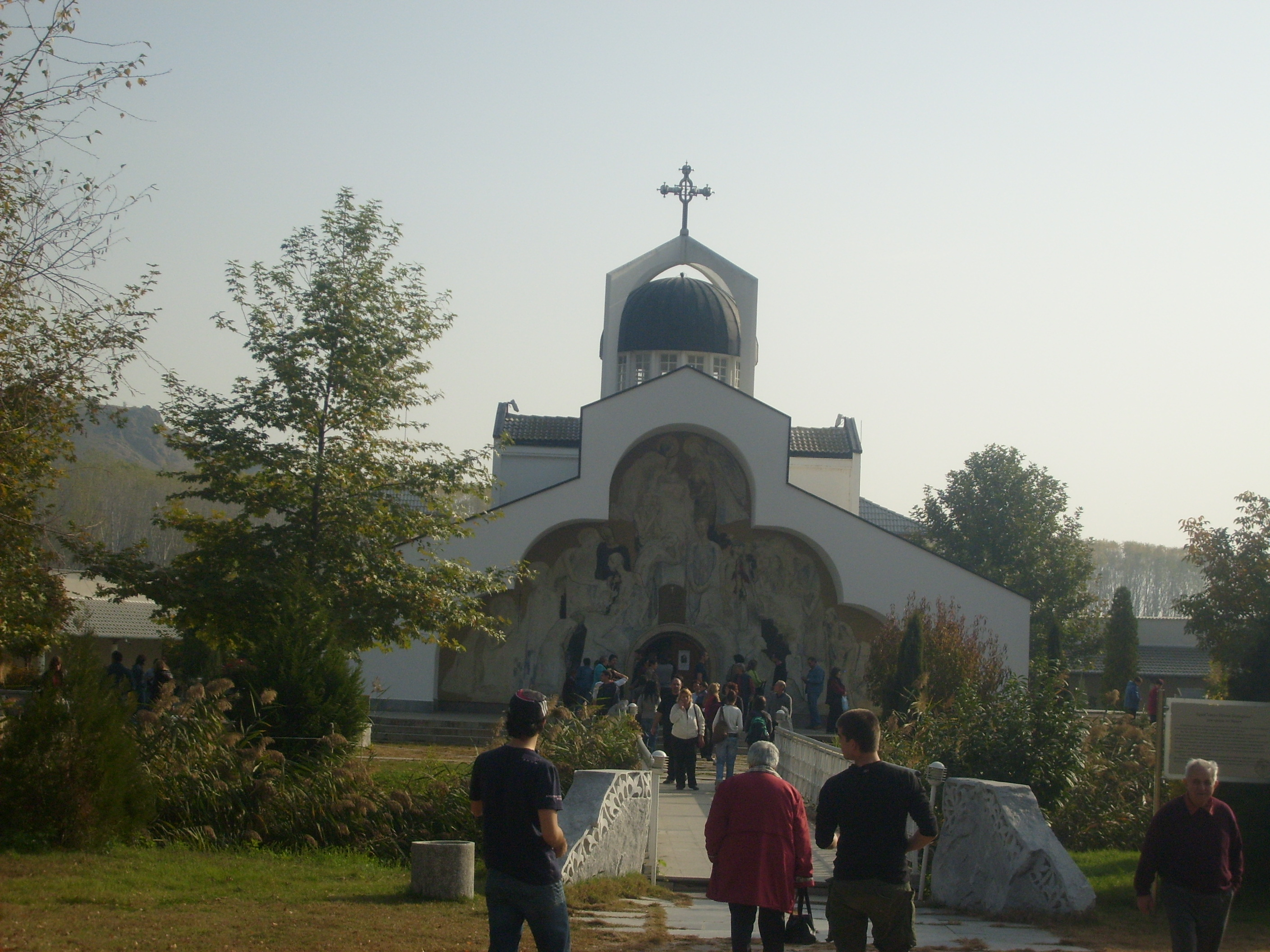 Rupite protected area, Bulgaria